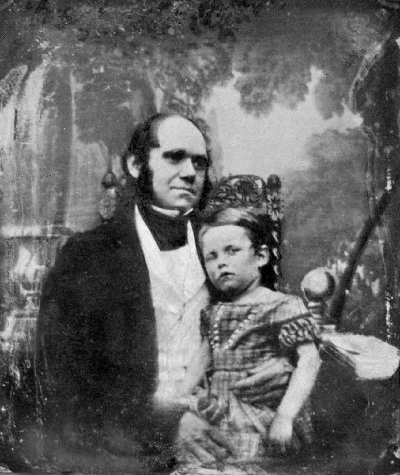 Published photograph of the only known daguerreotype of Charles Darwin